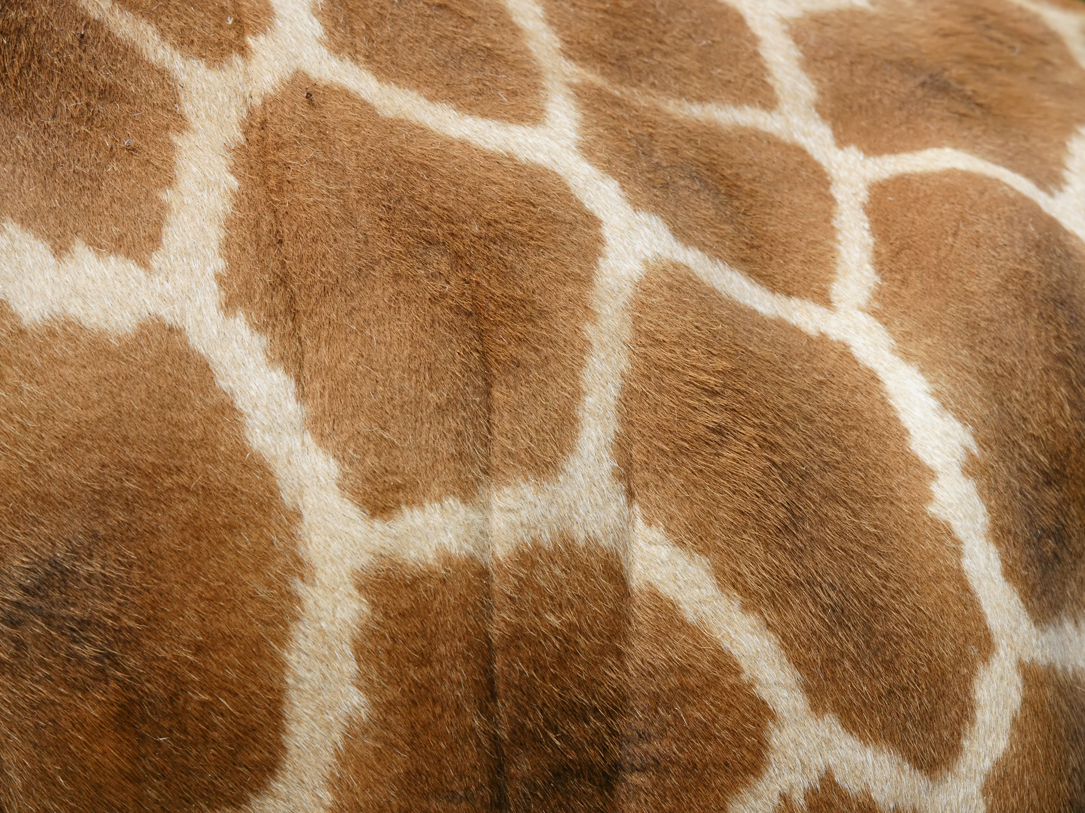 Skin pattern of a Ugandan Giraffe at Port Lympne Wild Animal Park, Kent, UK.